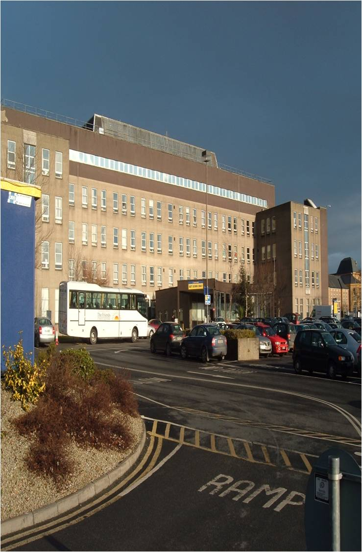 Letterkenny General Hospital Exterior